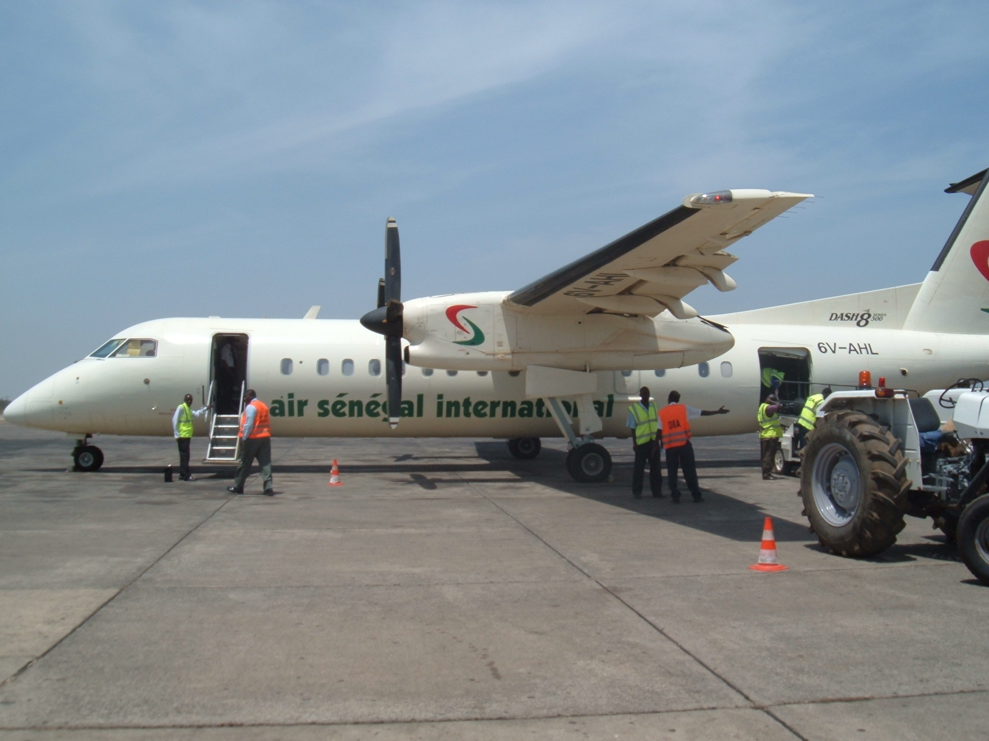 Banjul The GAmbia May First 2007 by JOel Span AIr Senegal International (6V-AHL)